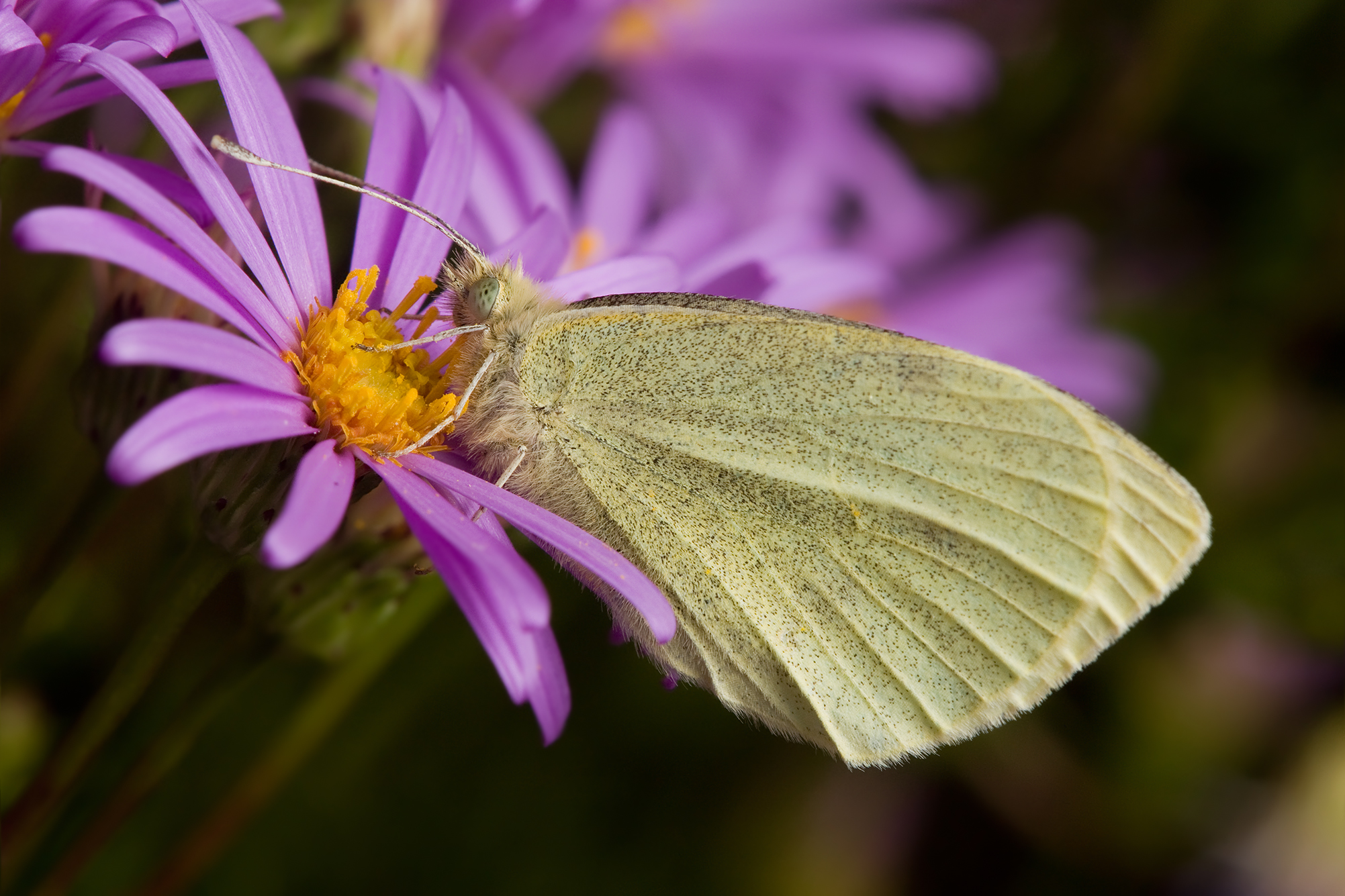 Small White (Pieris rapae), Austin's Ferry, Tasmania, Australia, Austin's Ferry, Tasmania, Australia